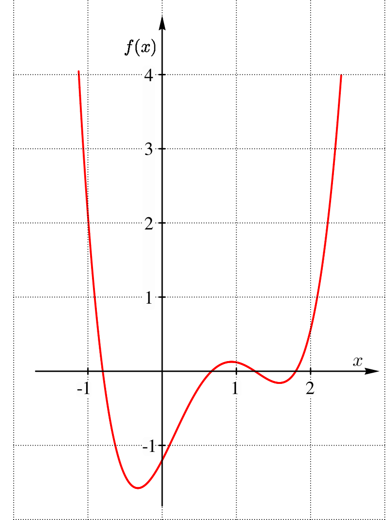 4:th grade equation plot